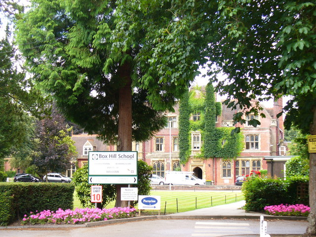 Box Hill School. Old mansion in Mickleham village, now a boarding school. It follows Kurt Hahn principles, like Gordonstoun.